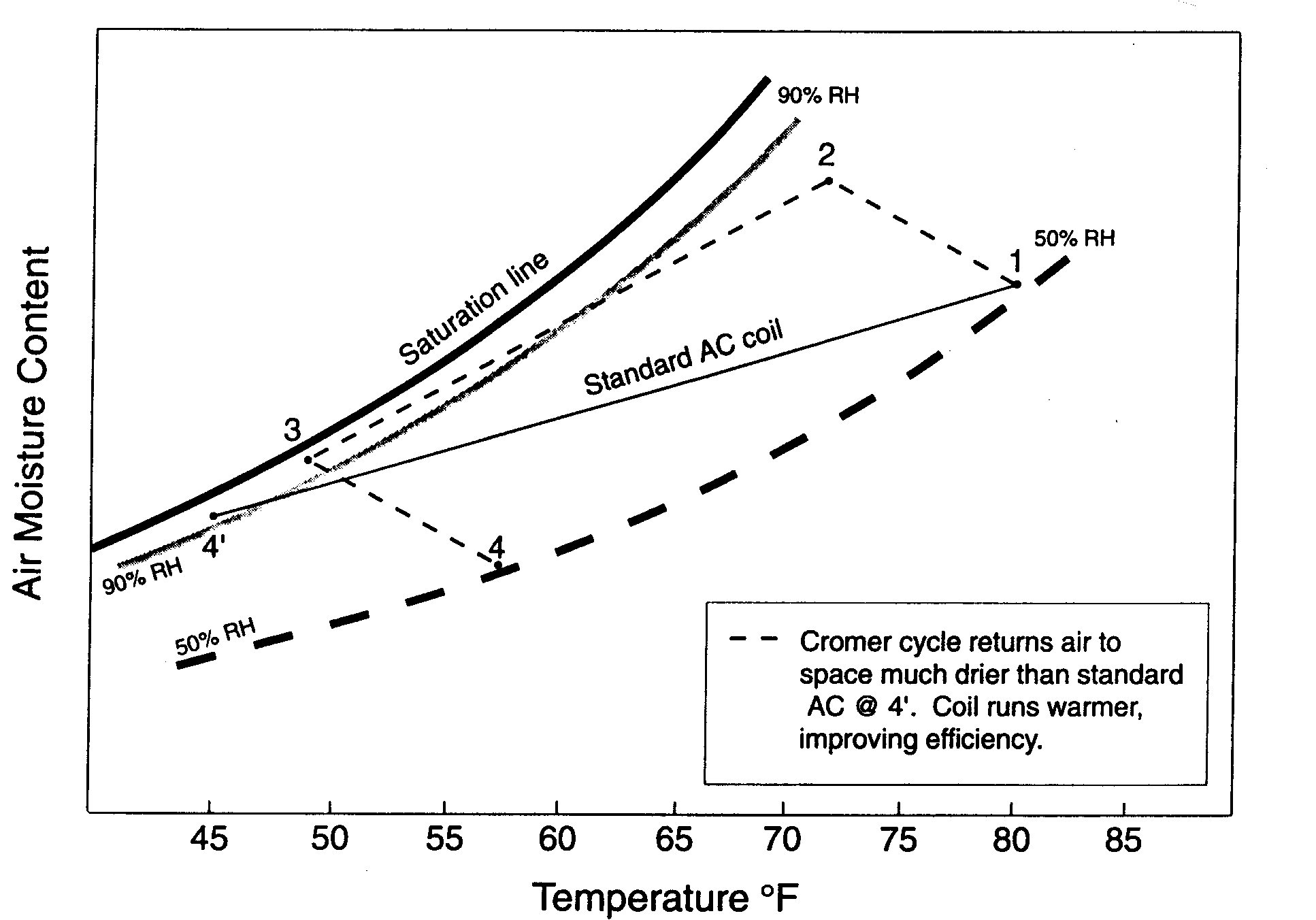 Air flow state points of Cromer cycle are 1-4. Air flow points through a standard air-conditioner coil are show as 1 to 4'.